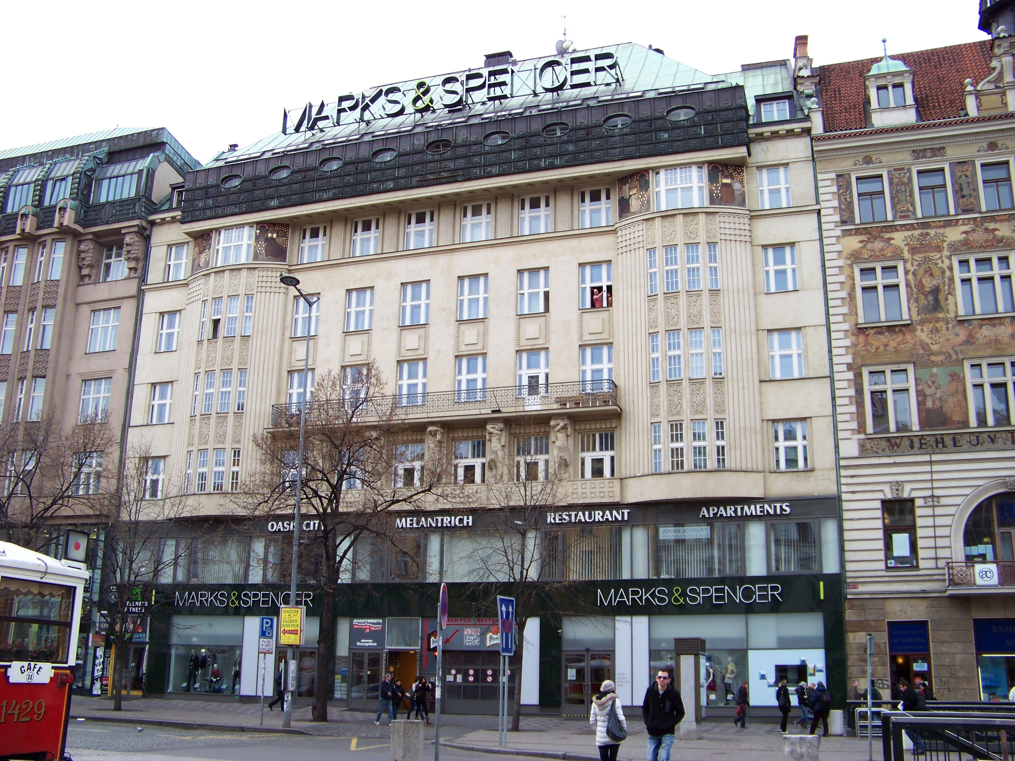 Prague-New Town, the Czech Republic. Wenceslas Square 793/36.